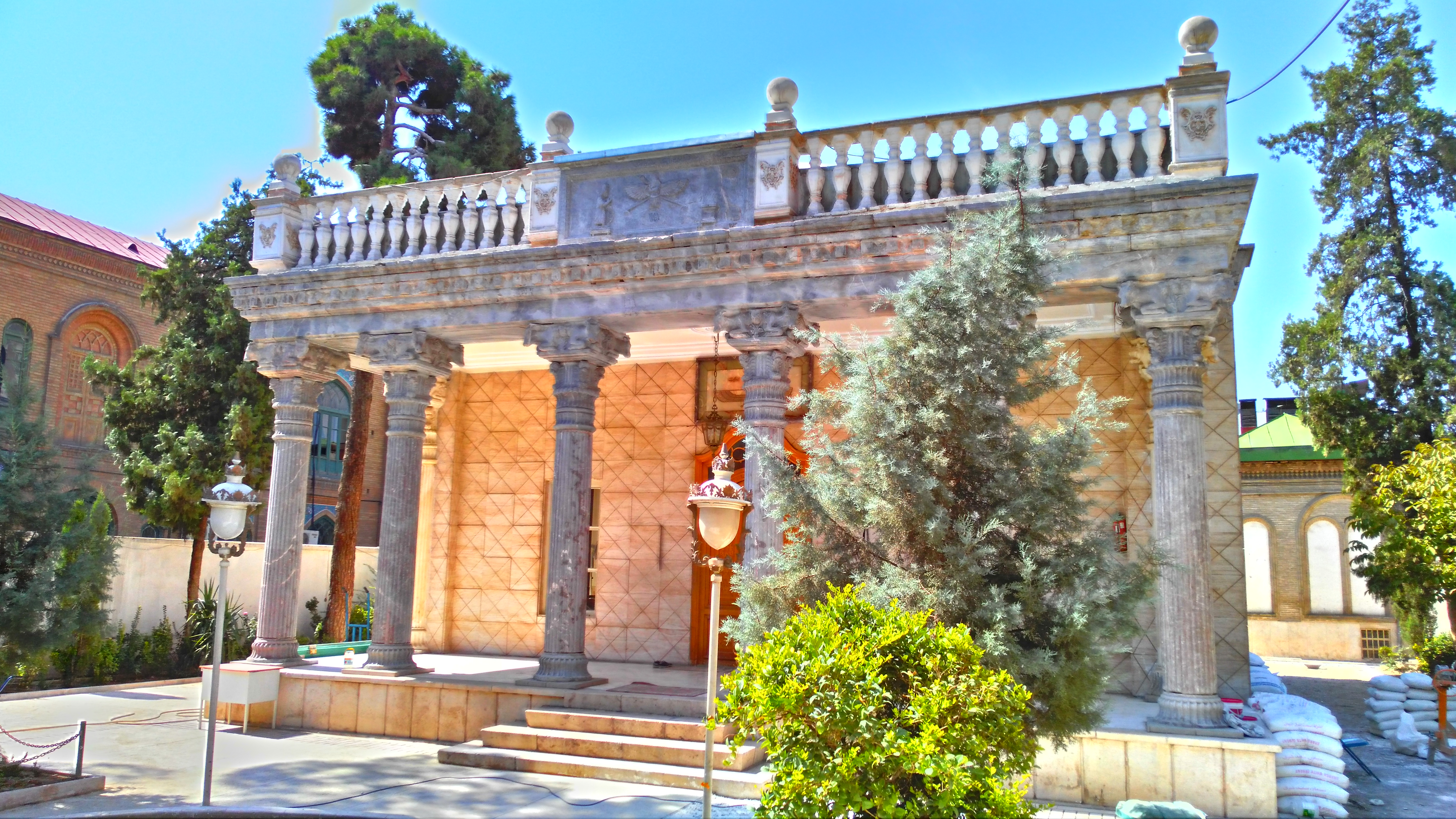 Adrian Temple, Tehran, Iran